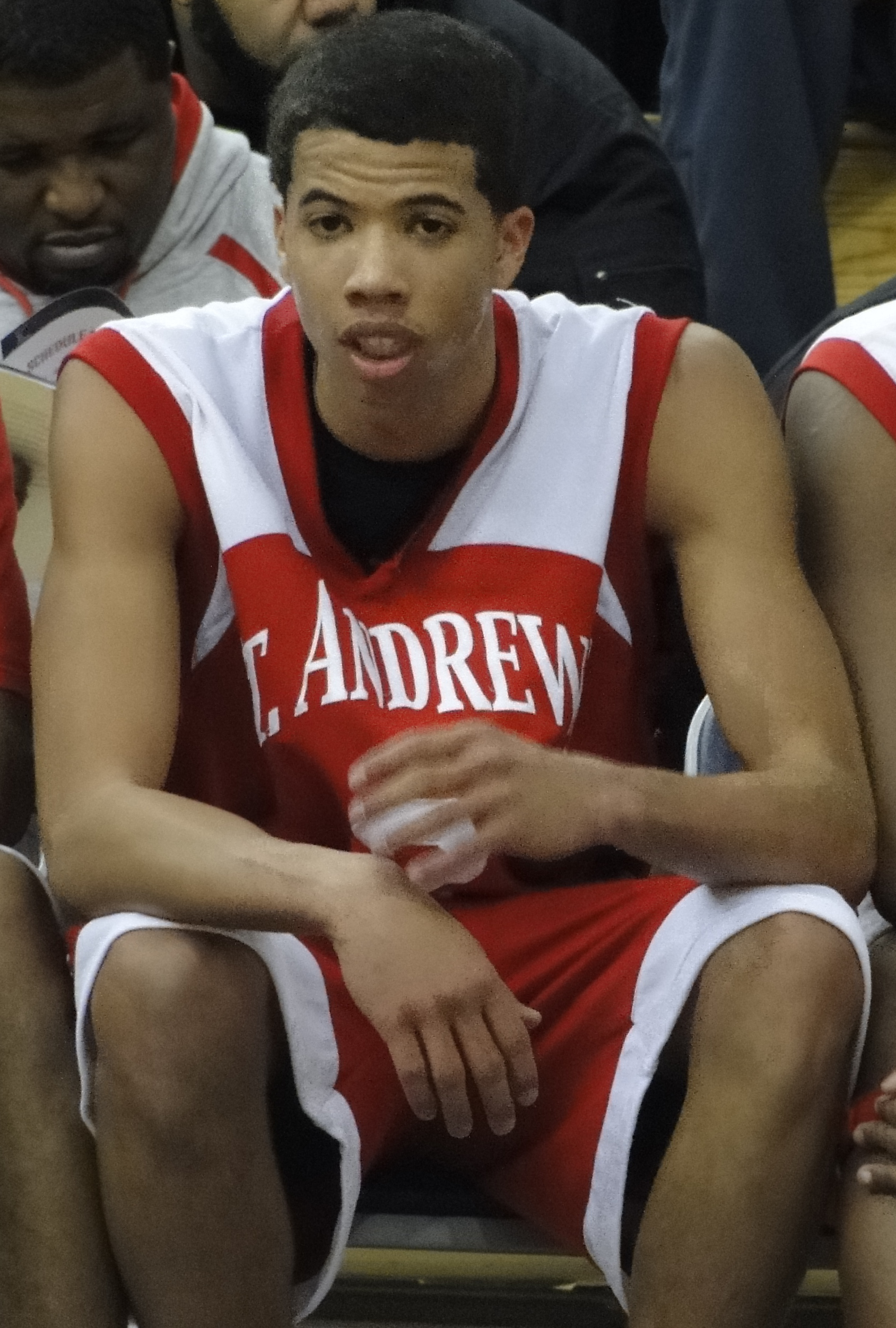 Michael Carter-Williams playing for St. Andrew's School.